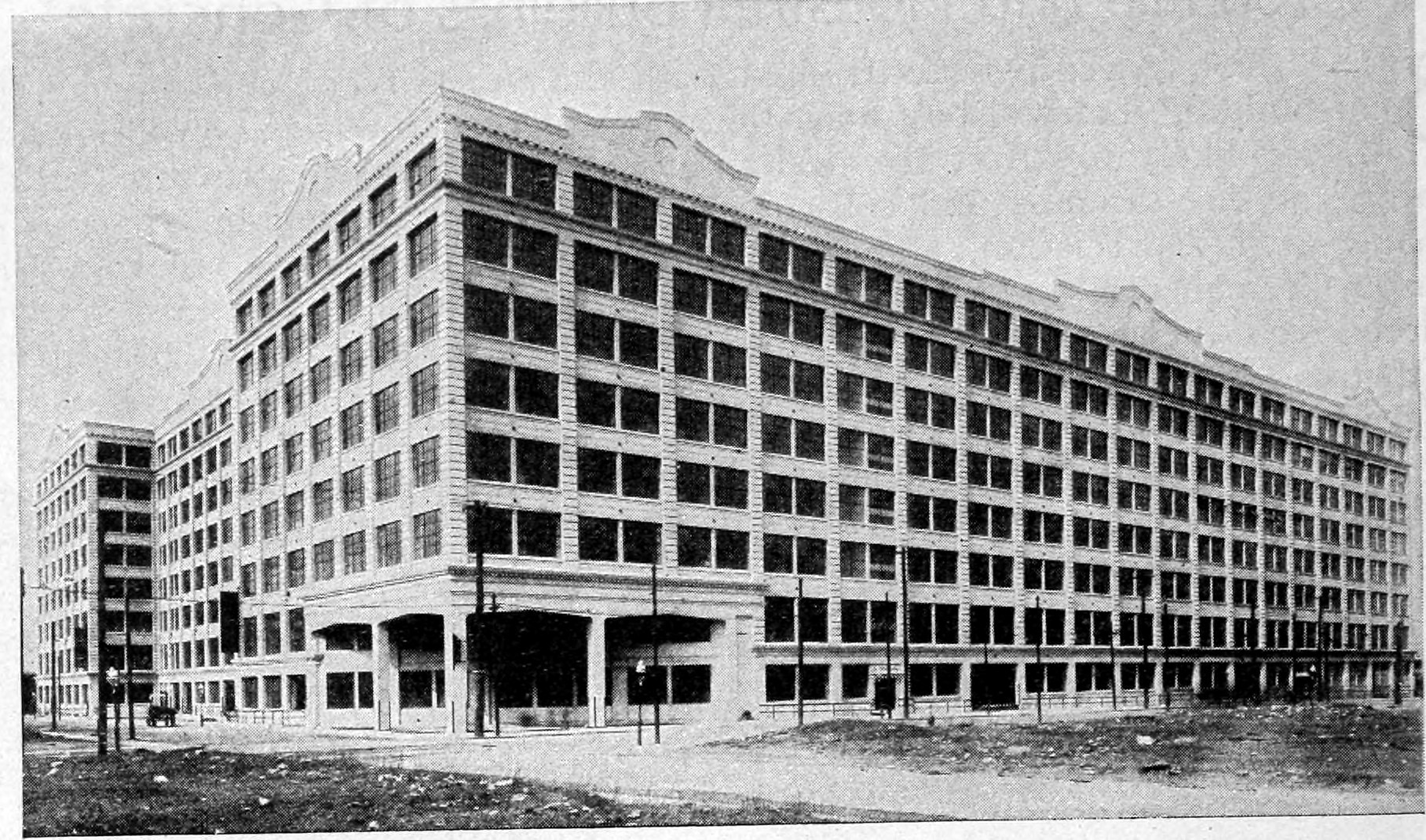 Title: Architect and engineer Year: 1905 (1900s) Authors: Subjects: Architecture Architecture Architecture Building Publisher: San Francisco : Architect and Engineer, Inc Text Appearing Before Image: d, Green & Co., Engineers will show that first cost of a structure is only one item and not necessarilv offirst importance. It is ultimate cost that will test and prove economy Ulimateeconomy dictates the choice of that type of construction on which freedomfrom depreciation and maintenance, low insurance and favorable influence onproduction will, by comparison with some other type of construction, in a shorttime, more than compensate for any probable additional first cost Employes welfare must be considered. Buildings which are sanitarylight, well ventilated and hence provide healthful quarters for workers arecertain to contribute to profits because of the contentment develooed amoup-the workers and the consequent reduction of labor turnover \ sense offu!?!!^,-/!!^ by owners, operating officials and emploves in the knowledgethat the building which houses tht-m and their industry is proof against destruc- * Courtesy of the Portland Cement A.ssociation. 82 THE ARCHITECT AND ENGINEER Text Appearing After Image: BUSH TERMINAL BUILDING, BROOKLYN, N. Y.William Higginson, Architect tion by fire, tornado and earthquake. It is worth money for owners andemployes alike to know that none of these visitations can suddenly wipe outthe industry on which they are dependent, with the resulting loss of timemoney, patronage and prestige that may have taken years of endeavor to buildup Attainment of these desirable ends is certain to favorably influence financ-m^ and credits. Permanent, fireproof buildings are also of distinct advertisingvalue to their owners. With concrete buildings, these desirable ends are securedin the fullest measure.